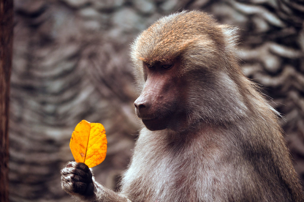 Papio hamadryas female